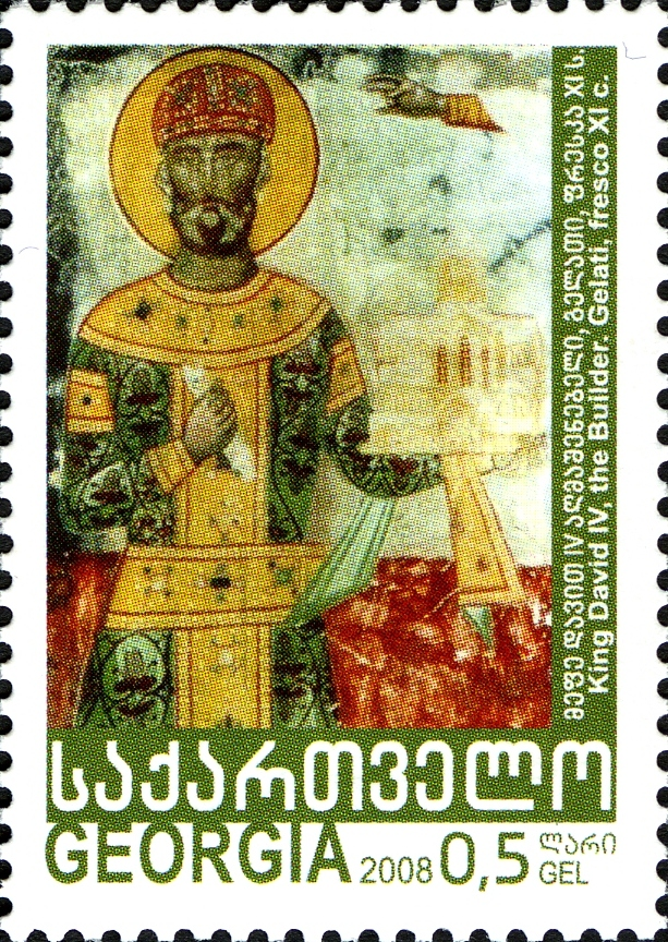 Stamps of Georgia, 2008